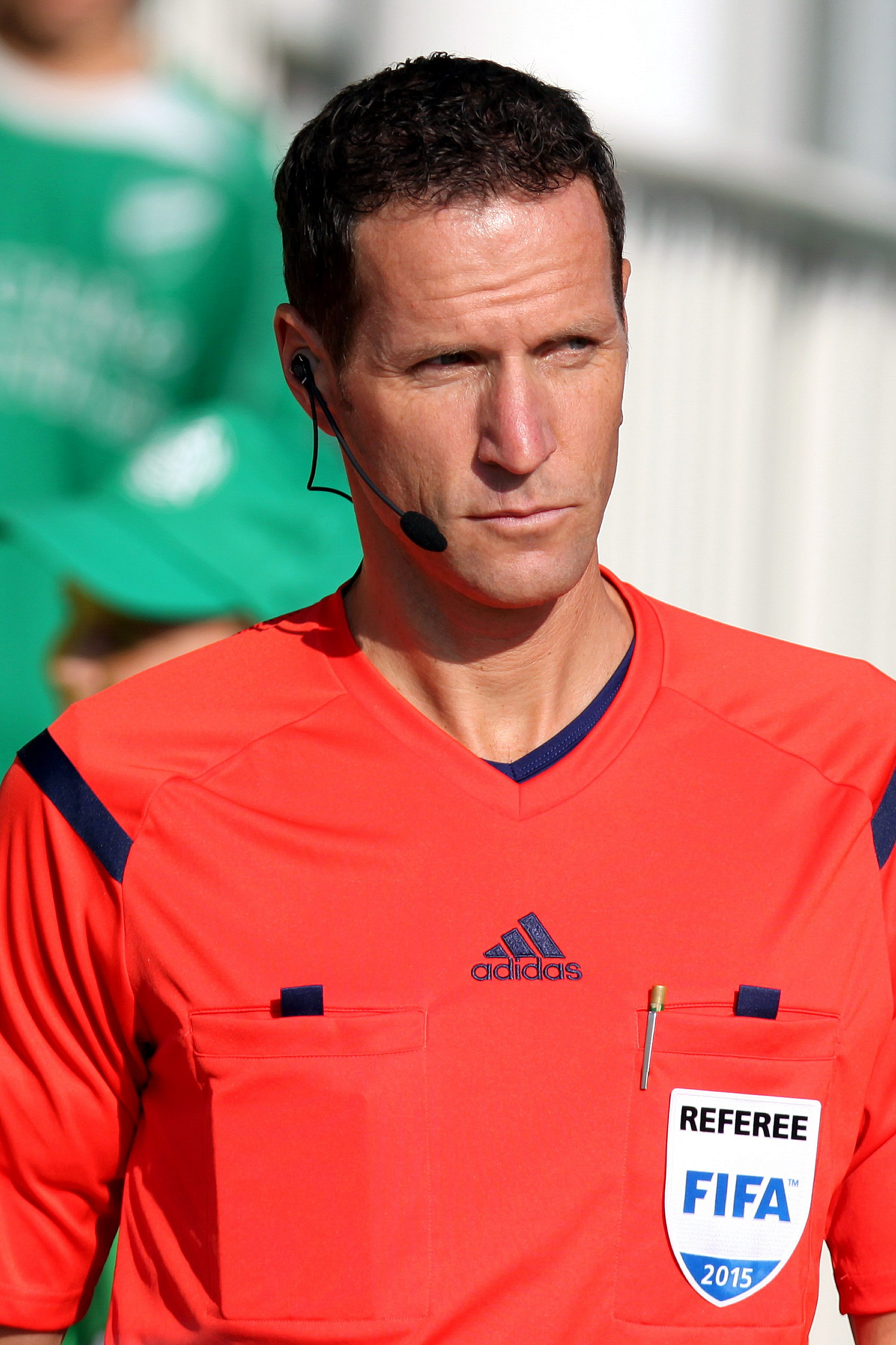 Match of the Austrian Football Bundesliga – SV Mattersburg (green shirts) vs. SK Sturm Graz (white shirts) on 2015-09-13 in Pappelstadion, Mattersburg – The photo shows referee Robert Schörgenhofer